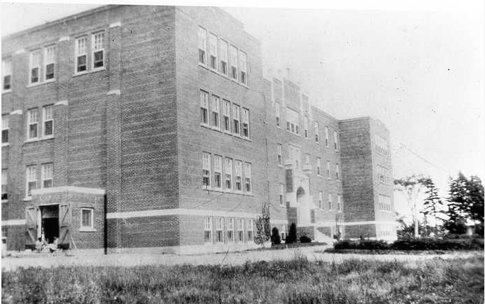 Shubenacadie Indian Residential School 1930 Nova Scotia Museum